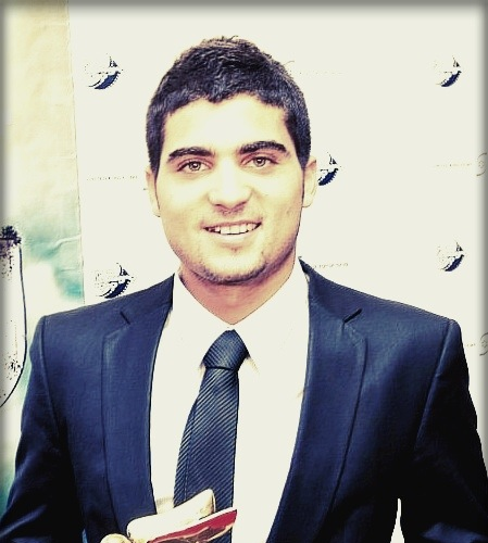 Oshri cohen holding the "golden lion prize" for best movie. He played the lead role for the winning movie: "LEBANON".